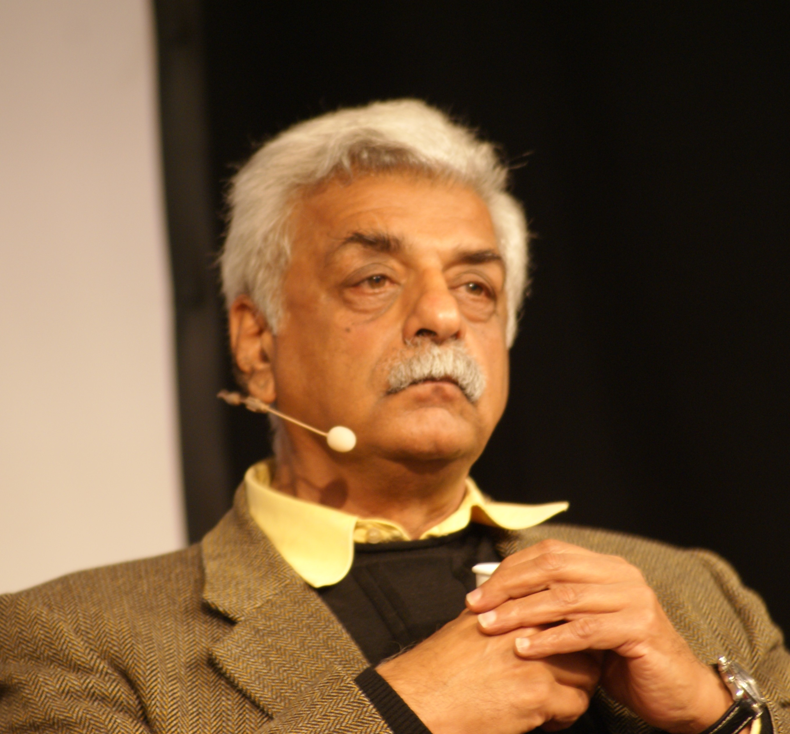 Tariq Ali på Bokmässan i Göteborg 2011